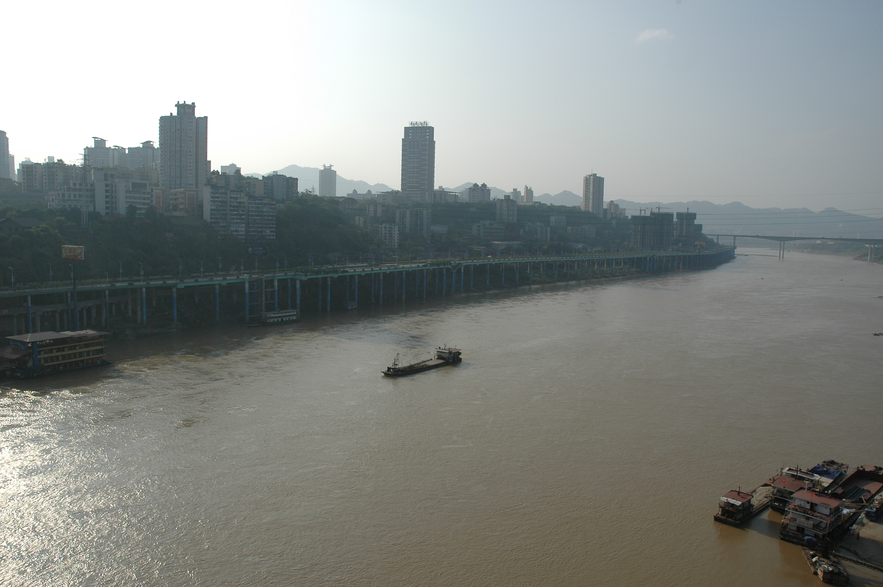 The Shapingba and the Jialing river.